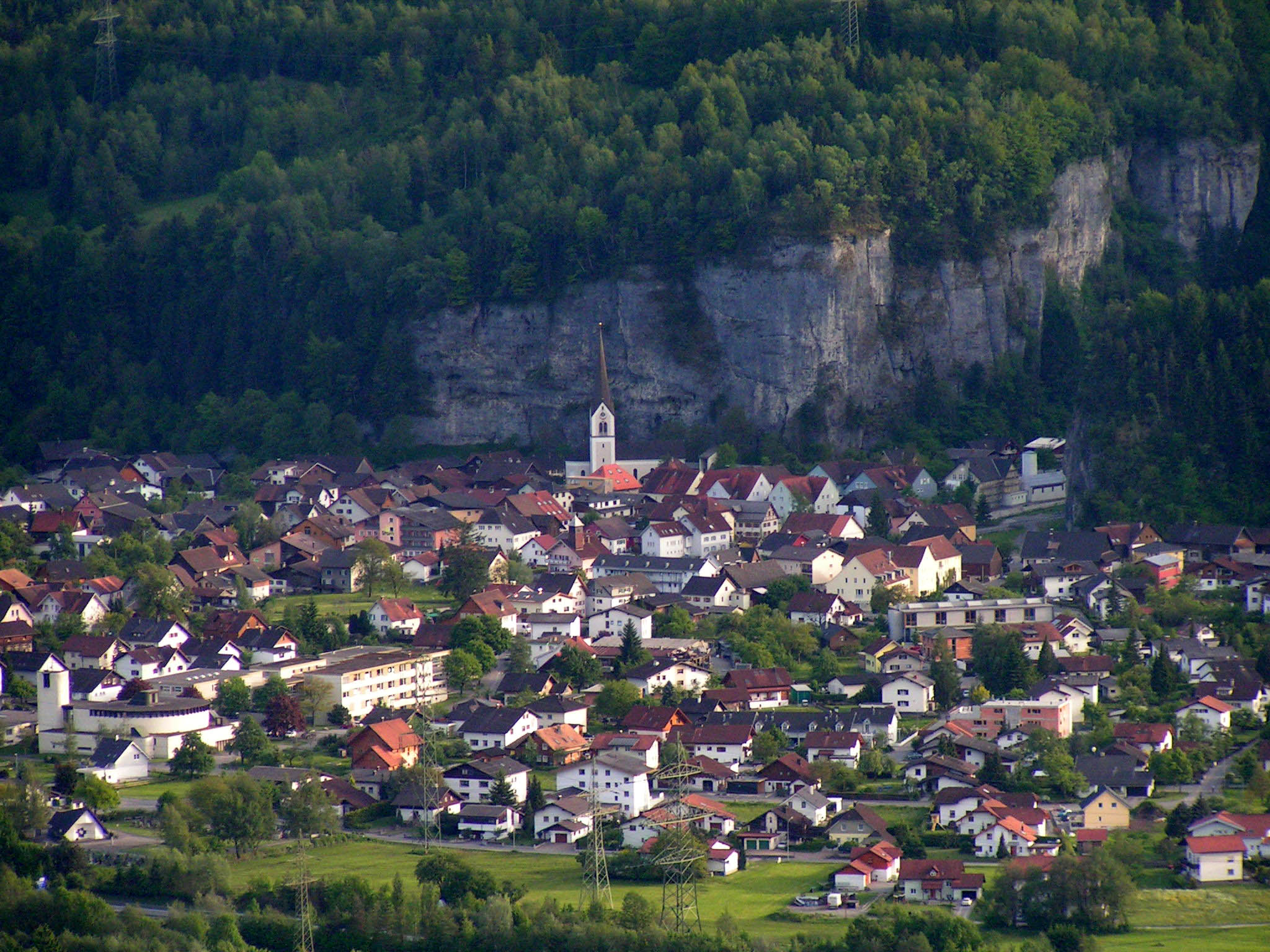 The village "Bürs" in Austria and the entrance to the "Bürser Schlucht"